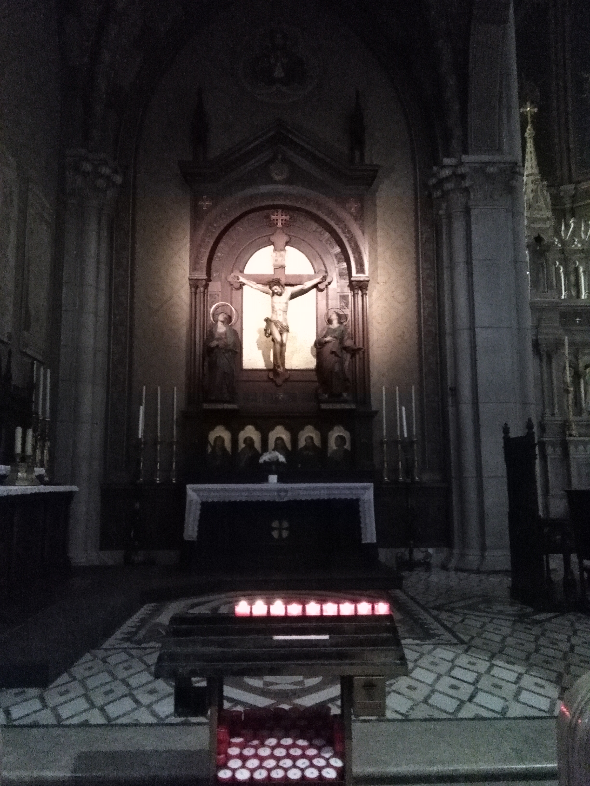 Prepositurale di Lissone, Altare del Crocefisso